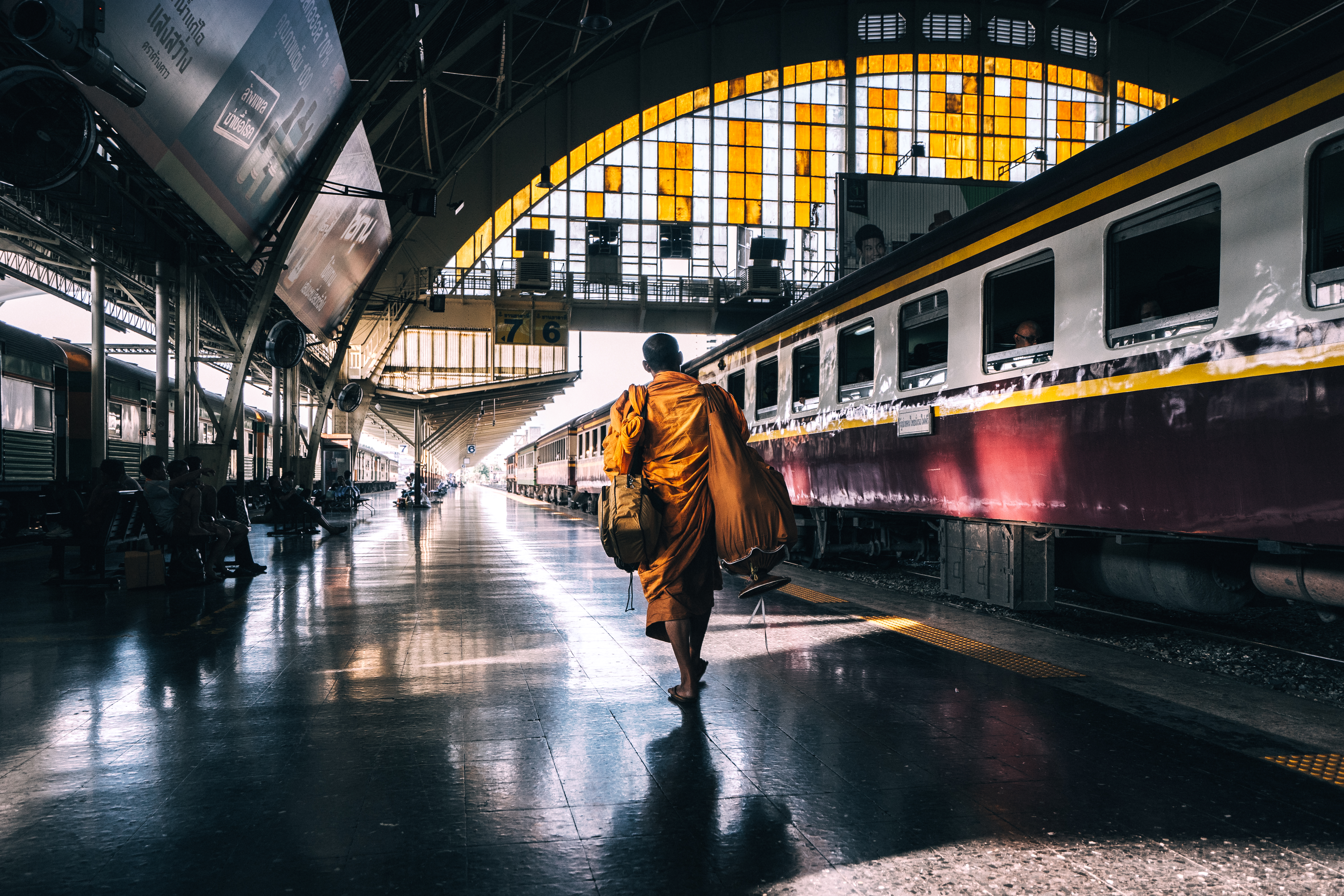 Bangkok, Thailand